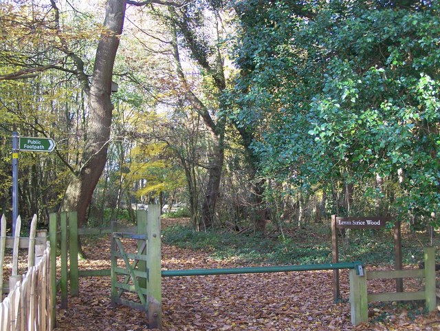 Eastern Entrance to Levan Strice Wood, Wigmore From Thanet Road (unadopted highway).